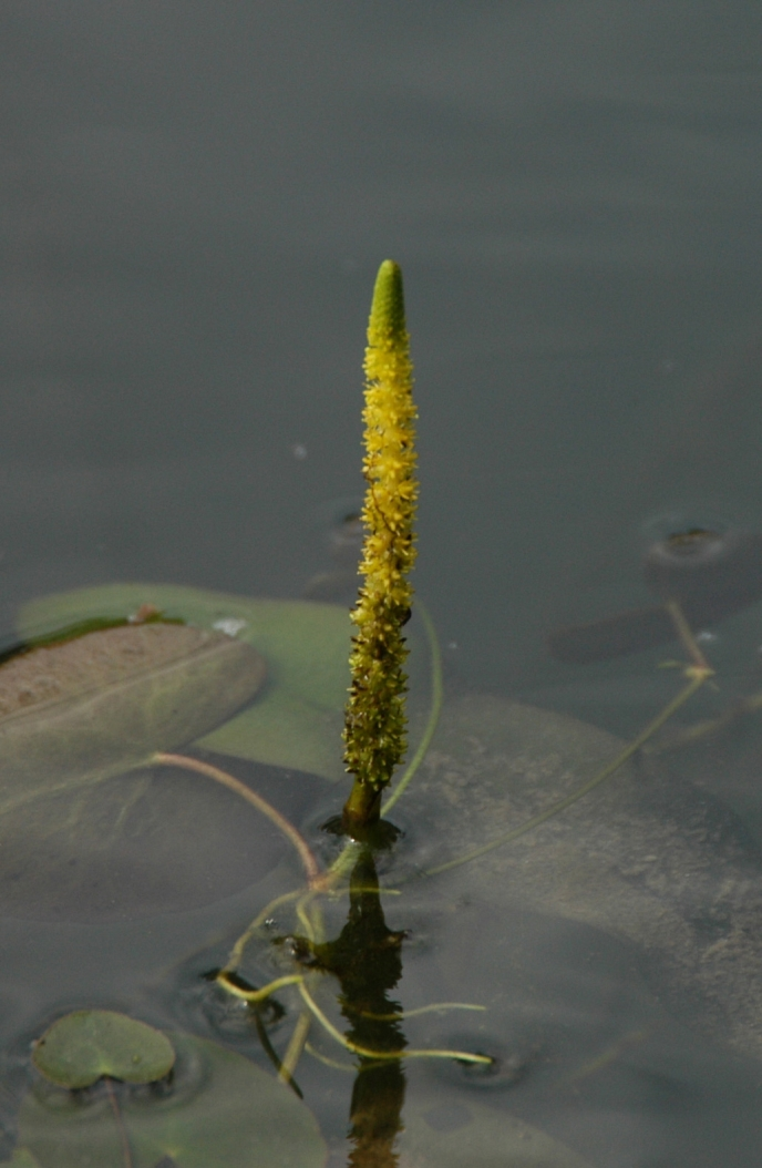 Aponogeton lakhonensis in Myanmar (10 Dec 2005). Credit: J. Murata.